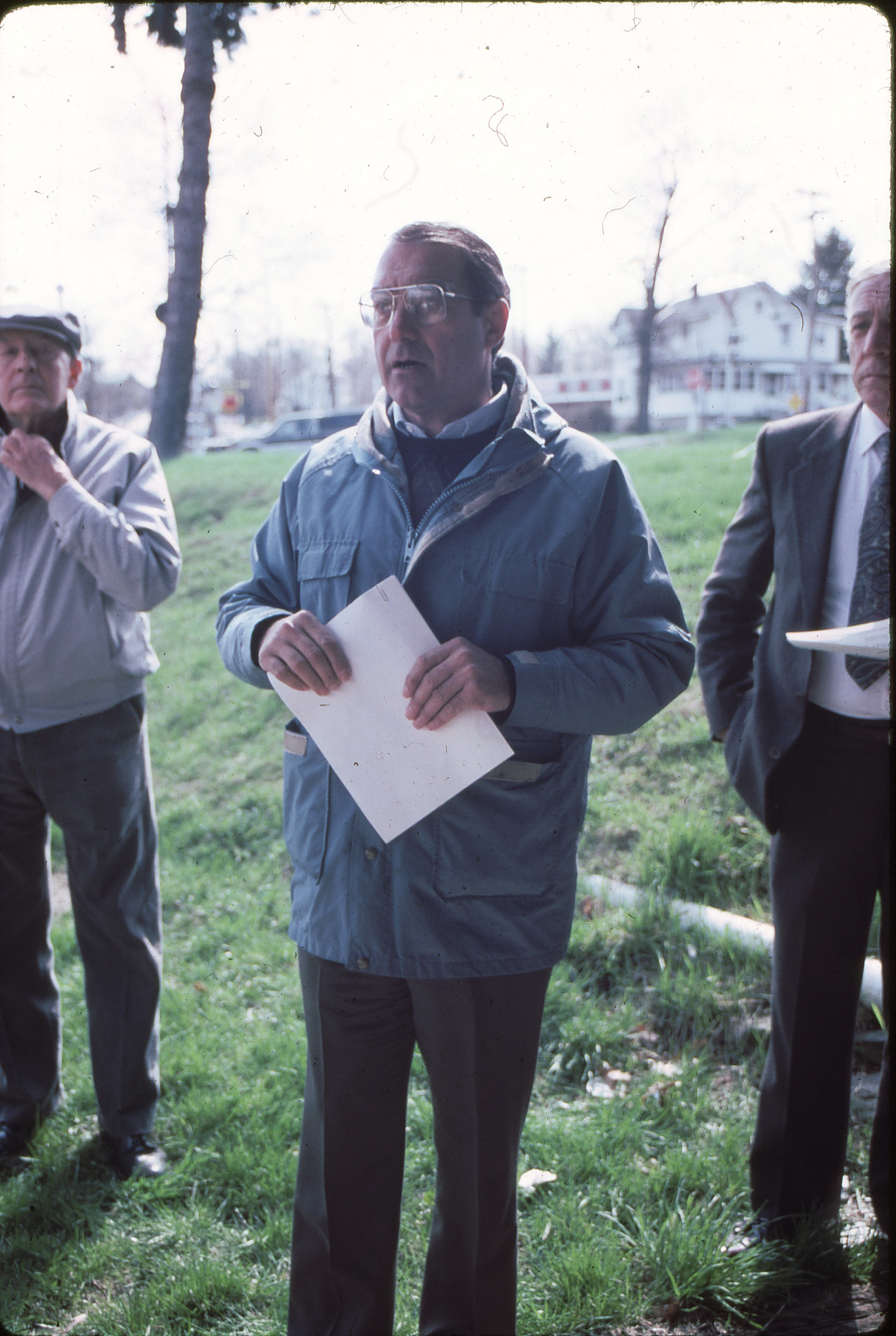 Wally From Columbia (NJ) (talk) 03:07, 28 November 2010 (UTC)